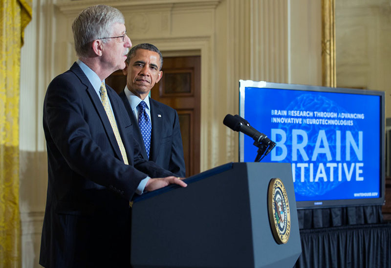 Official White House photograph of NIH Director Dr. Francis Collins and President Barack Obama announcing the BRAIN Initiative